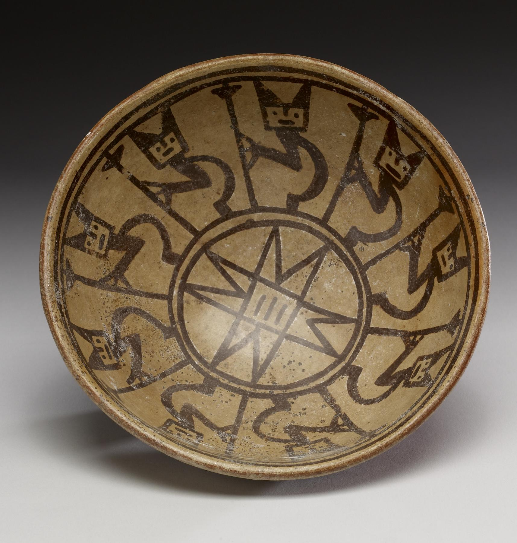 Dishes with annular supports are found throughout the Nariño- Carchí region, which straddles the international border between Colombia and Ecuador, although stylistic differences distinguish highly localized sub-traditions. The Tuza complex, found at archaeological sites in the upper Guaitara River region and perhaps related to the historical Pastos people of the area, is differentiated by the use of positive painting rather than negative-resist painting found elsewhere in the region. Further, Tuza decorative motifs are almost exclusively restricted to the vessel interior. The design of this bowl features a single motif at the center of the bowl and a ring of feline-headed figures holding staff -like objects. This bowl's program features thin, delicately rendered figural forms that move elegantly around the vessel's circular pictorial field. The painter took into account the image-altering curvature of the bowl, elongating the figures' legs so that their body proportions do not appear distorted by the concave arc of the vessel. Exhibitions • Exploring Art of the Ancient Americas: The John Bourne Collection Gift. The Walters Art Museum, Baltimore; Frist Center for the Visual Arts, Nashville. 2012-2013.